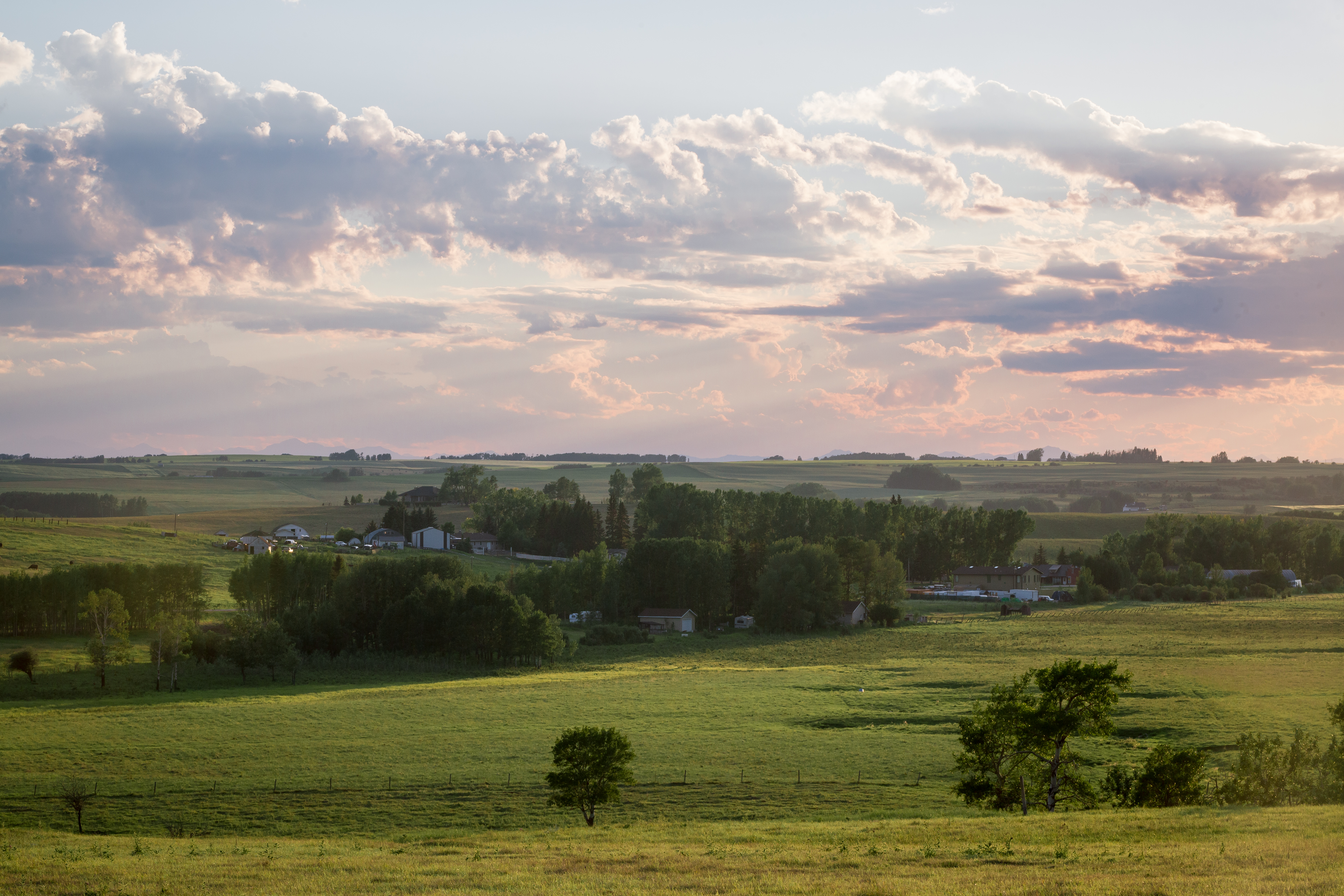 Sunset of the Madden AB skyline, taken from Hwy 574 on July 18, 2018.